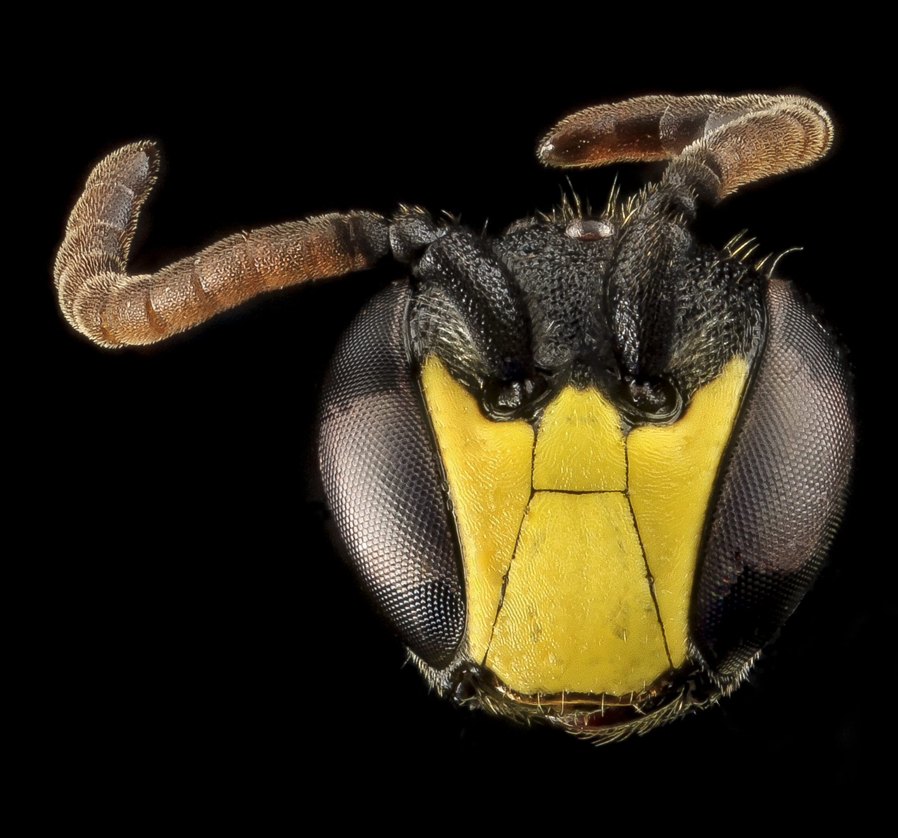 A male Hylaeus modestus, a masked bee found in the new gardens of Wolf Trap National Park for the Performing Arts